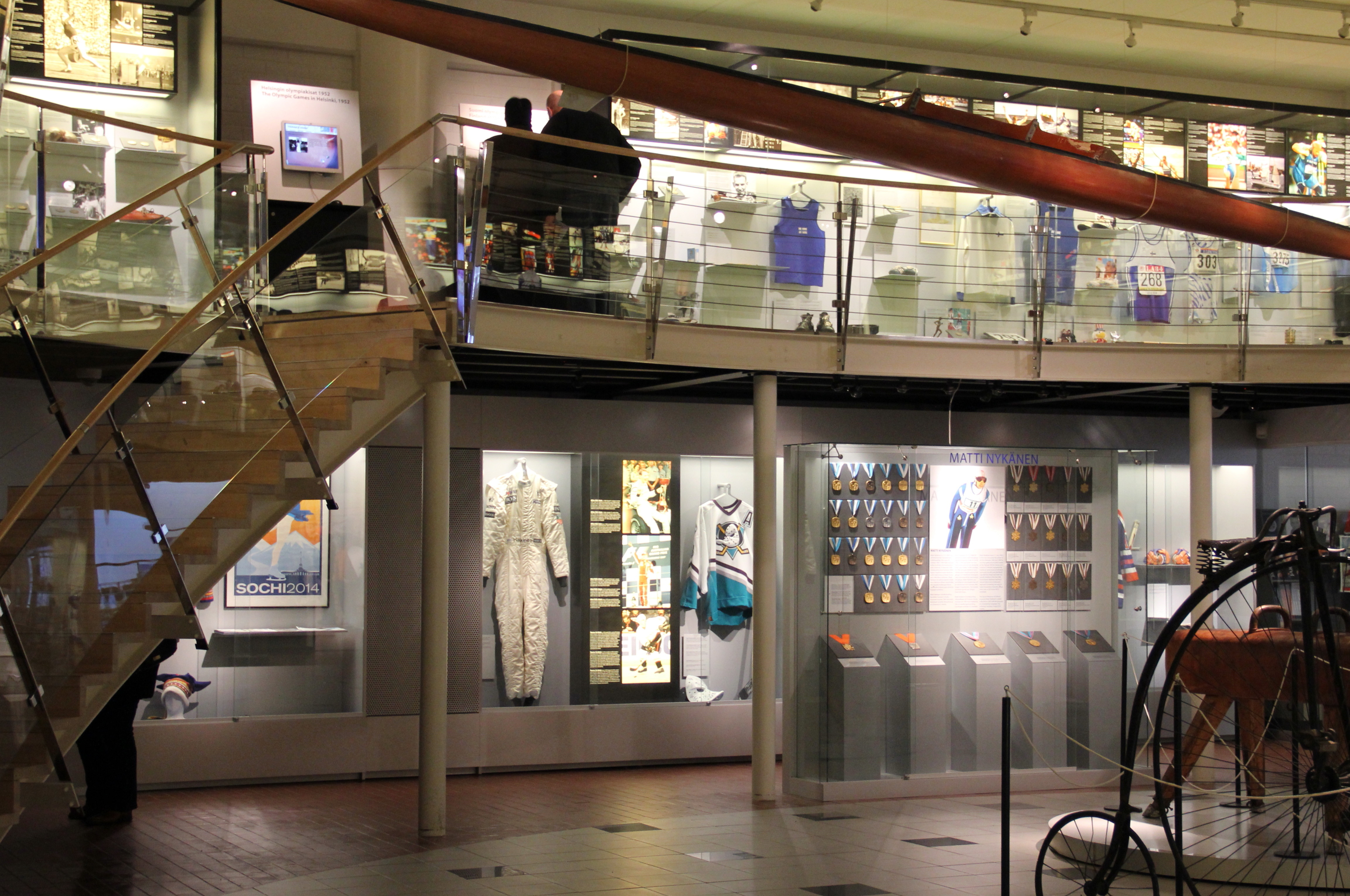 Sports Museum of Finland, Helsinki, Finland. General view.